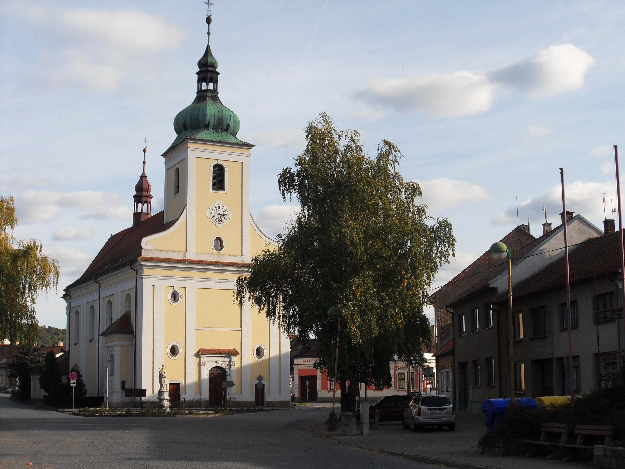 Saint James the Grater church, Veverská Bítýška, Brno-Country district, Czech Republic